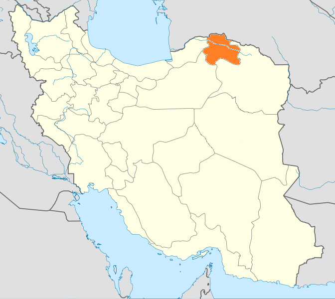 Locator map of Iran